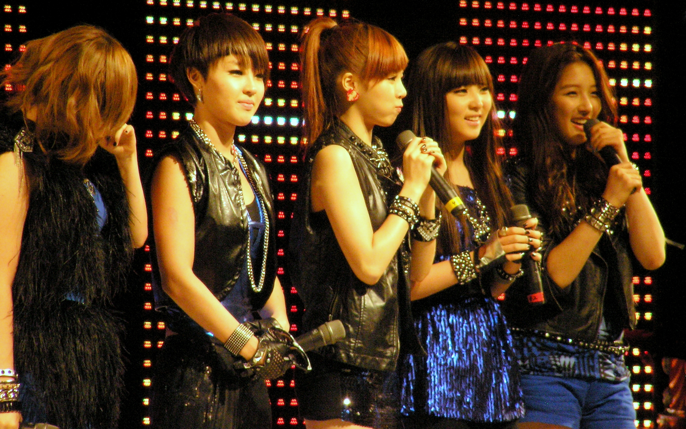 4minute performing at Dongguk University festival in Fall 2009.